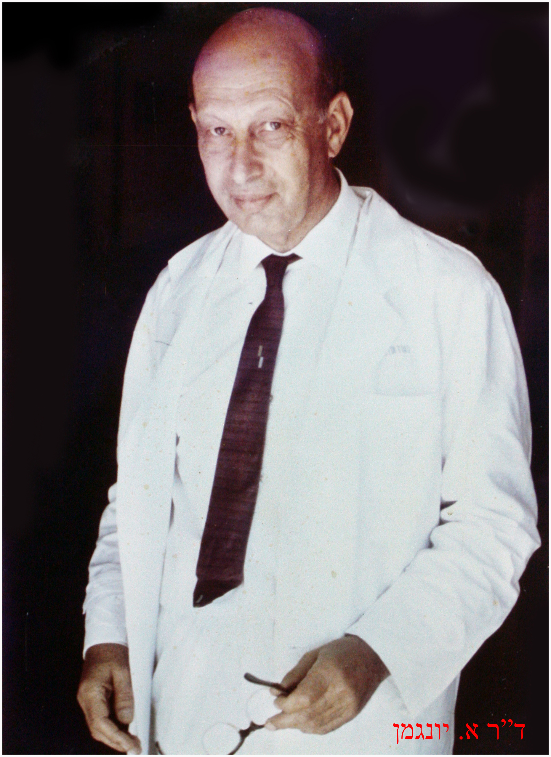 Dr Alfred Jungmann ,radiologist at the government hospital Haifa, the liaison with the Hagannah organization